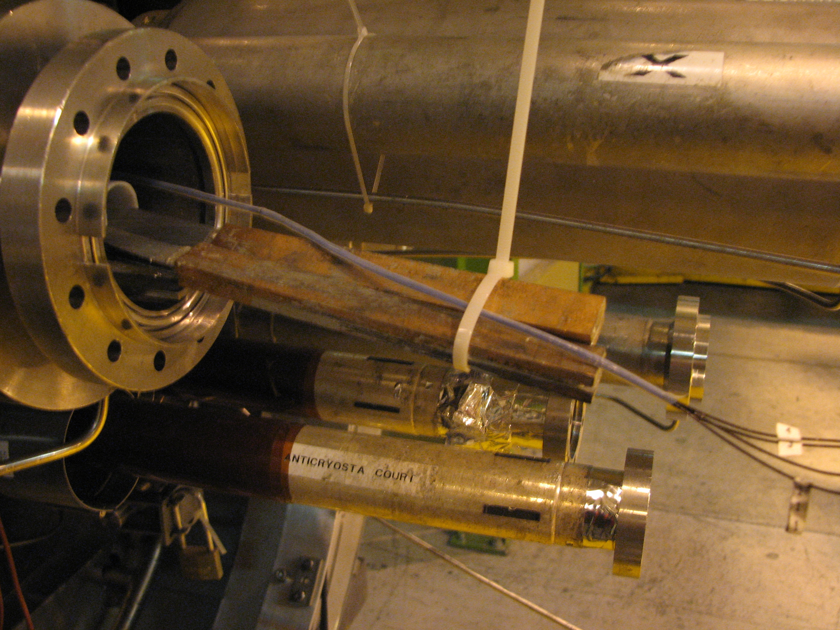 The niobium titanium wires are protected at their ends to prevent them from spontanously burning